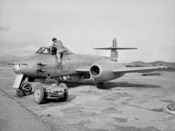 Kimpo, South Korea. A22223 Sergeant R.D. Mitchell being strapped into his Meteor by A5185 Corporal T.C. Townley prior to a bomber escort mission to North Korea.